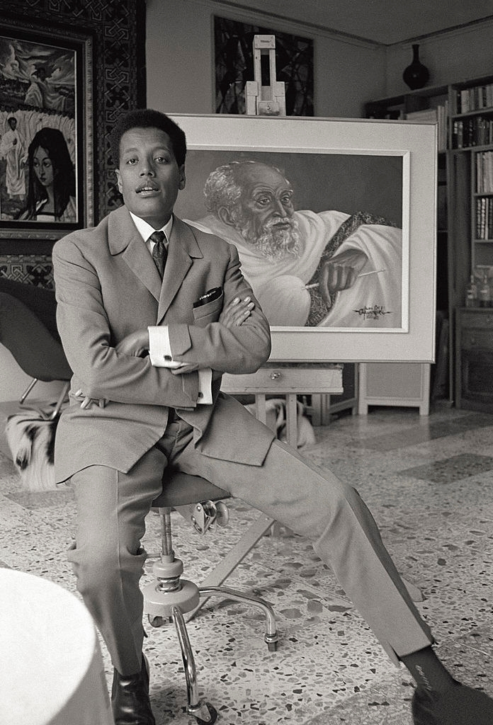 Ethiopian artist Afewerk Tekle, recently invited for a tour and personal expositions across Russian Federation and USA, is photographed in his study. Behind him, there is one of his paintings. Addis Abeba, Ethiopia, 1965